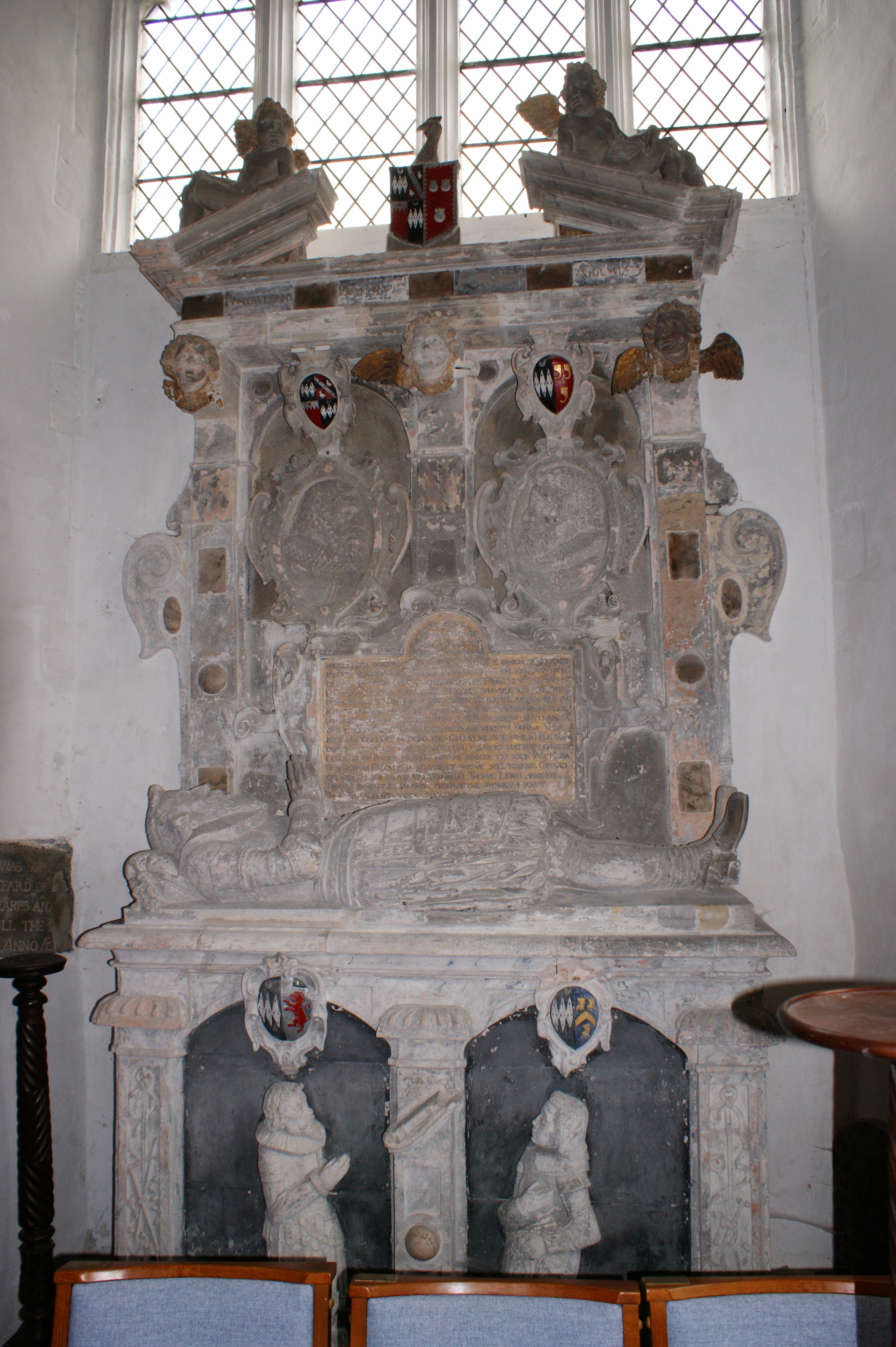 Monument of the Gifford family, dating from 1625, in the Early 16th Century Perpendicular church of St. Heiratha's, Chittlehampton, 09/13.